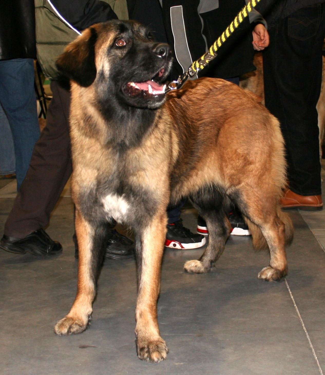 Peculiar over-extended melanistic mask.